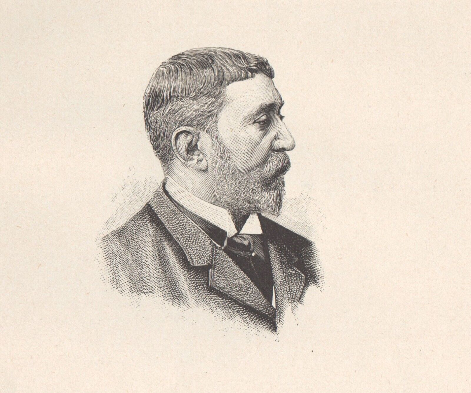 French painter and engraver Ferdinand Roybet (1840-1920)